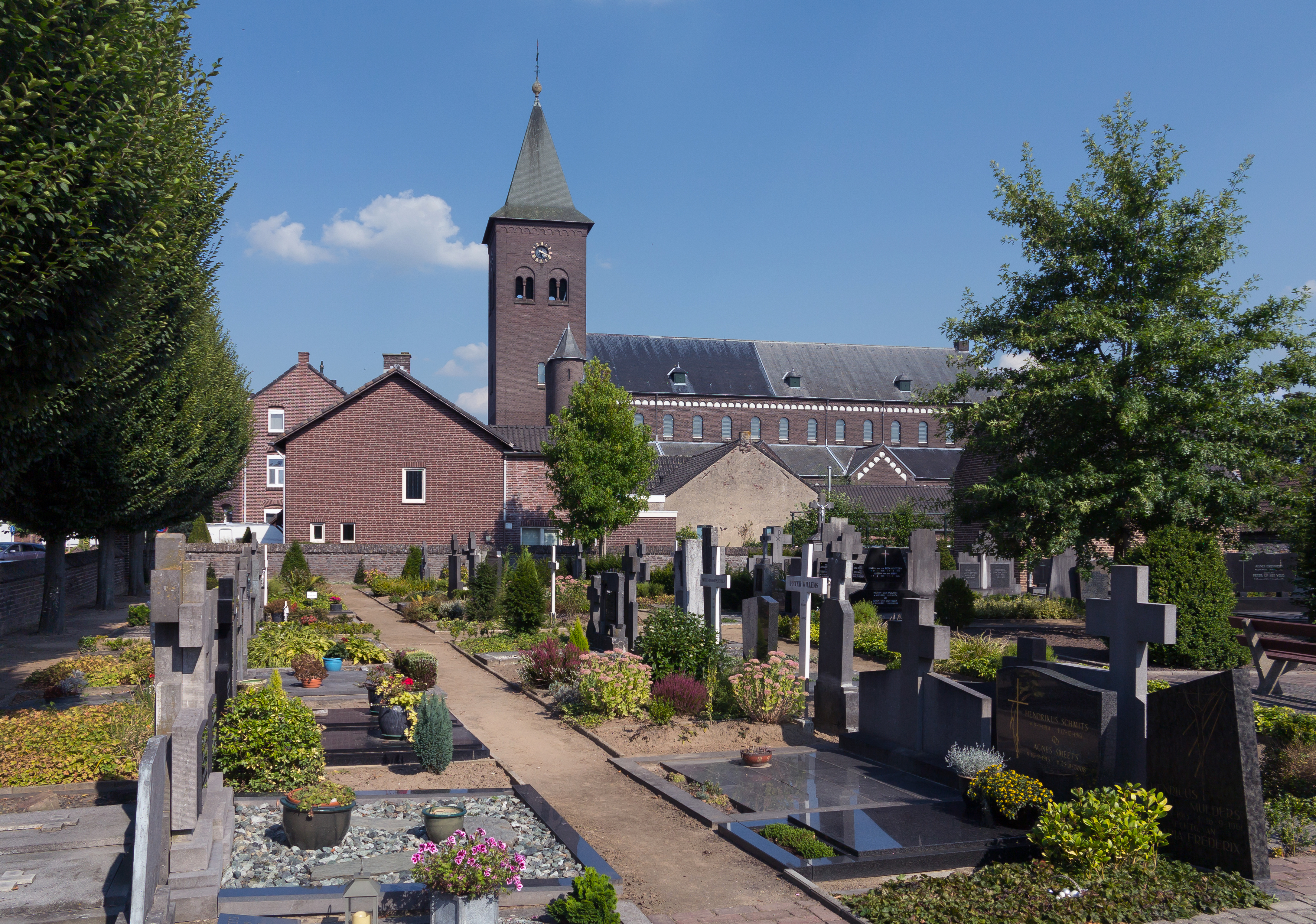 Vlodrop, church: de Sint-Martinuskerk